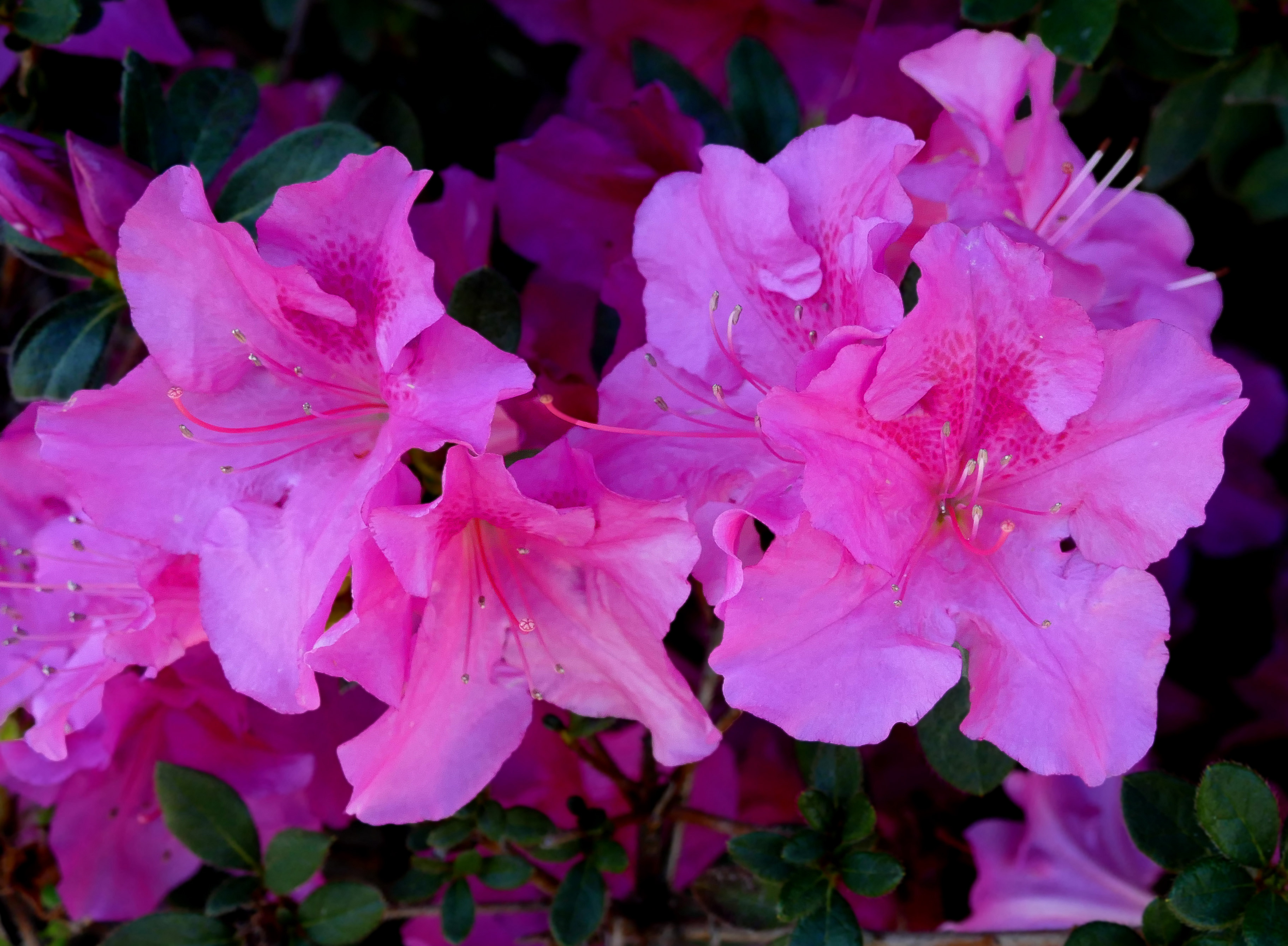 Azalea, a member of the genus Rhododendron